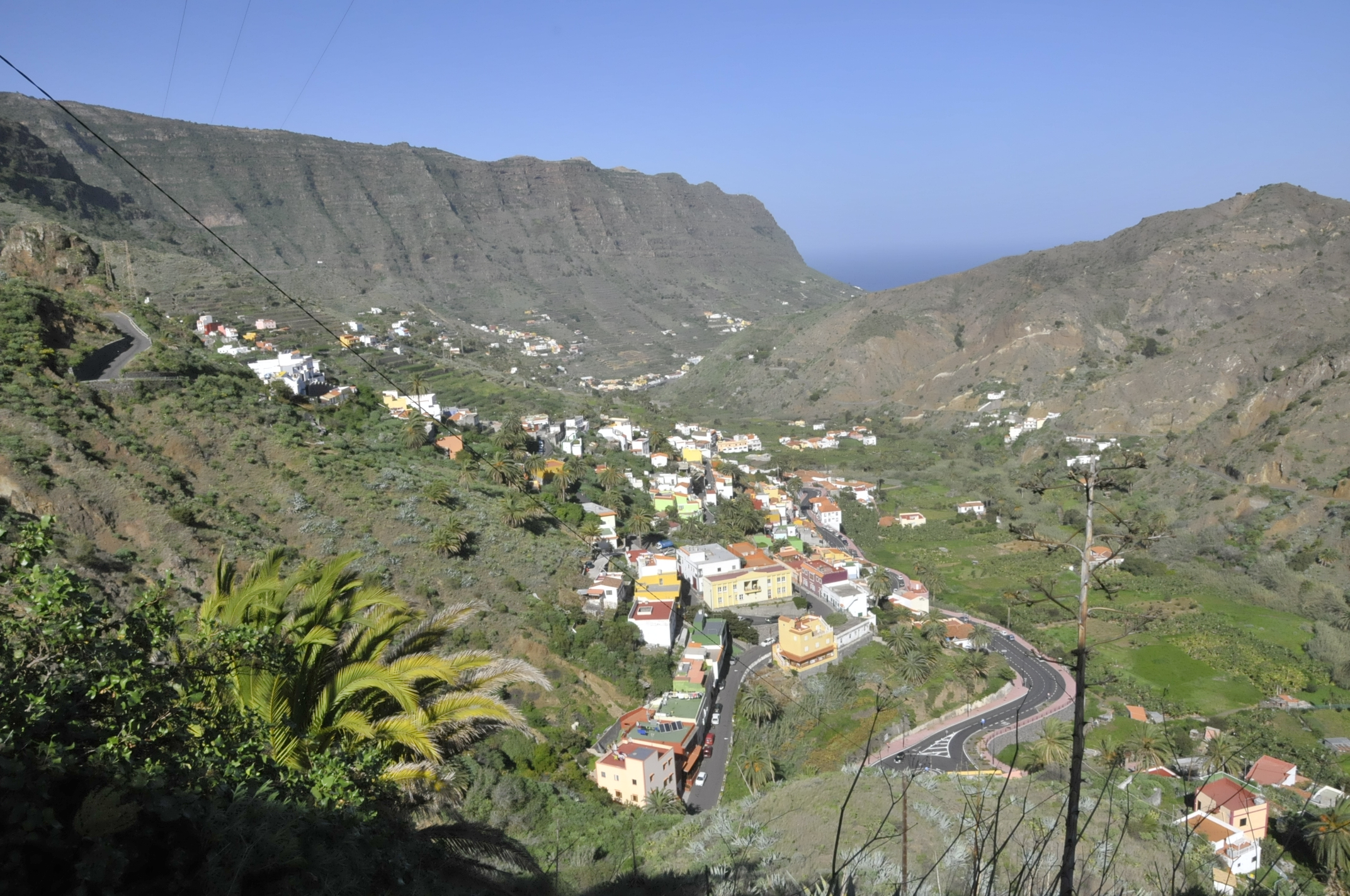 Hermigua, La Gomera